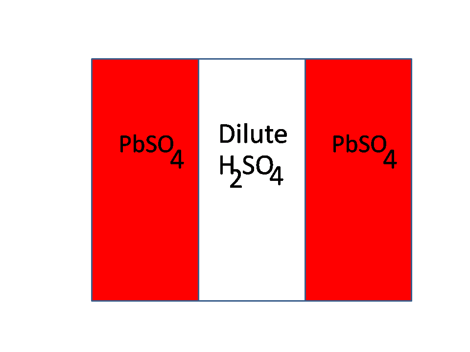 Discharged battery